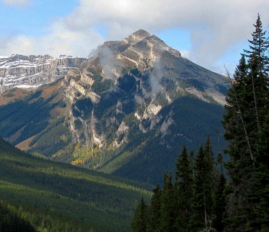 Massive Mountain in Banff National Park, Alberta